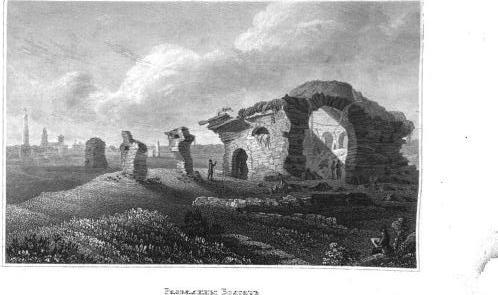 This is illustration of Bolghar ruins from book russian writer Svin'in «Картины России и быть разноплеменных ея народов: из путешествий П.П. Свиньина»